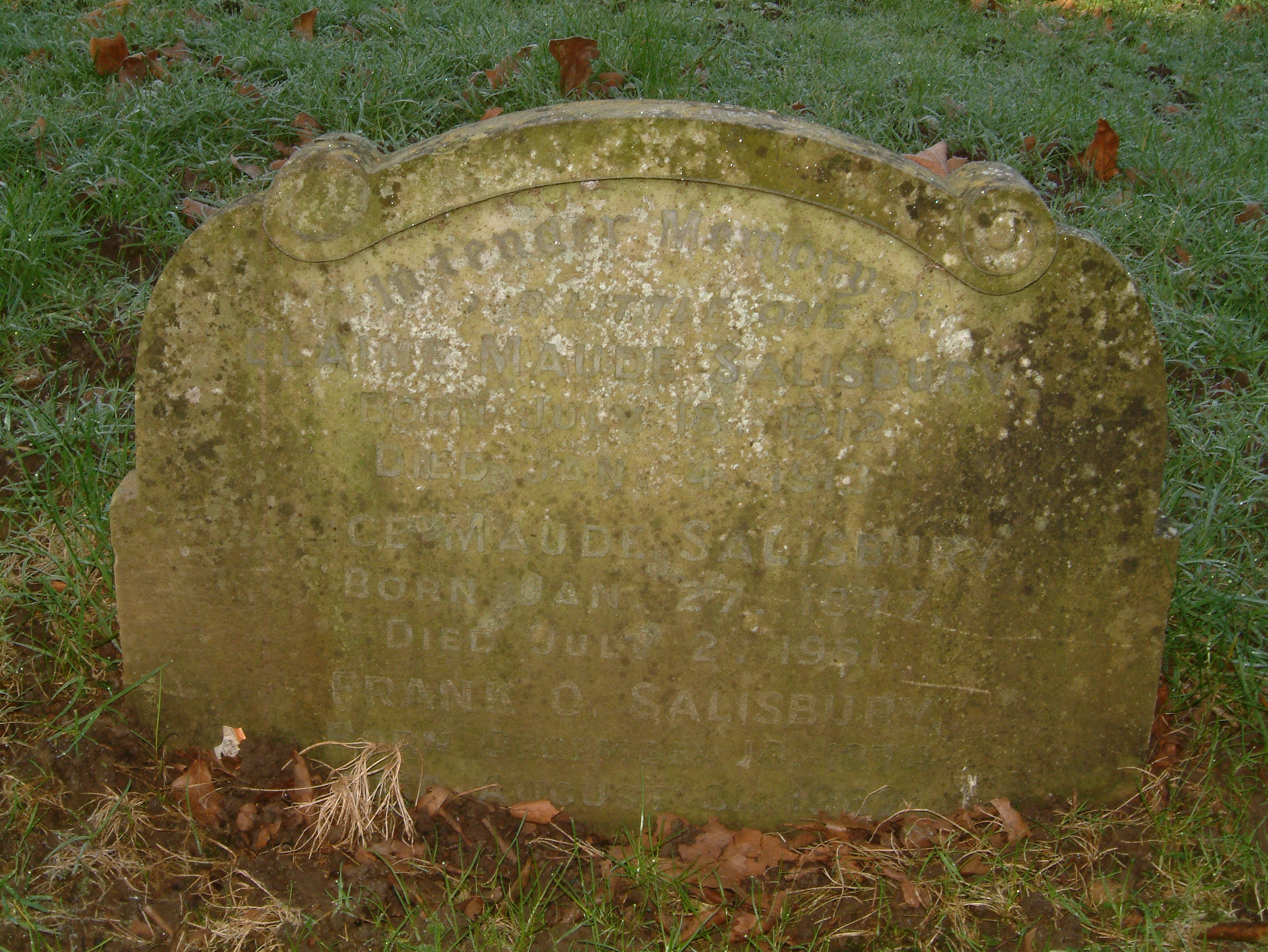 Francis Owen Salisbury Headstone, St Nicholas Churchyard, Harpenden.